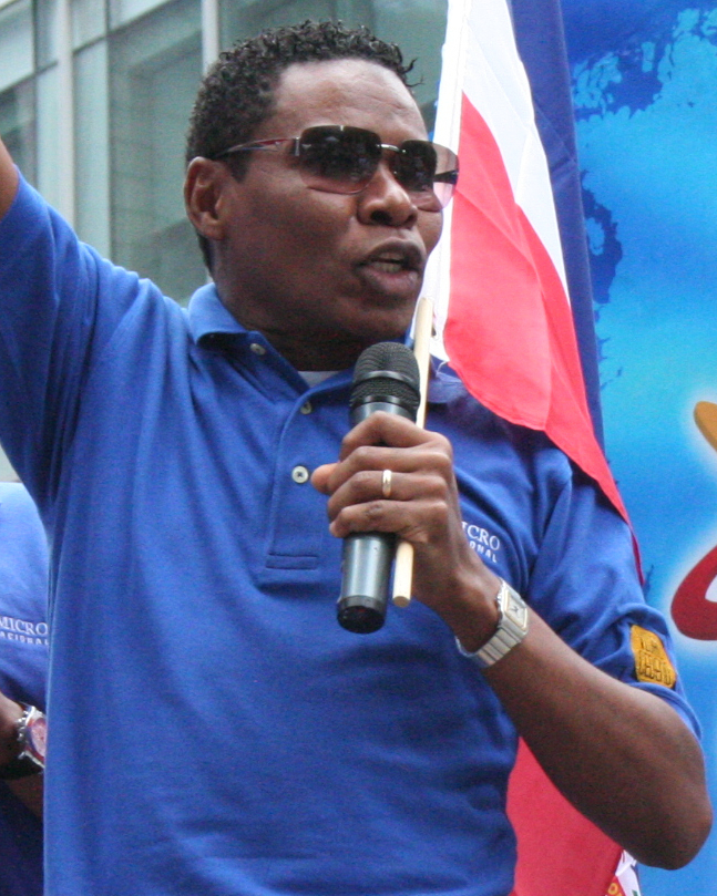 adjusted version of Image:Miguel_Raymond.jpg